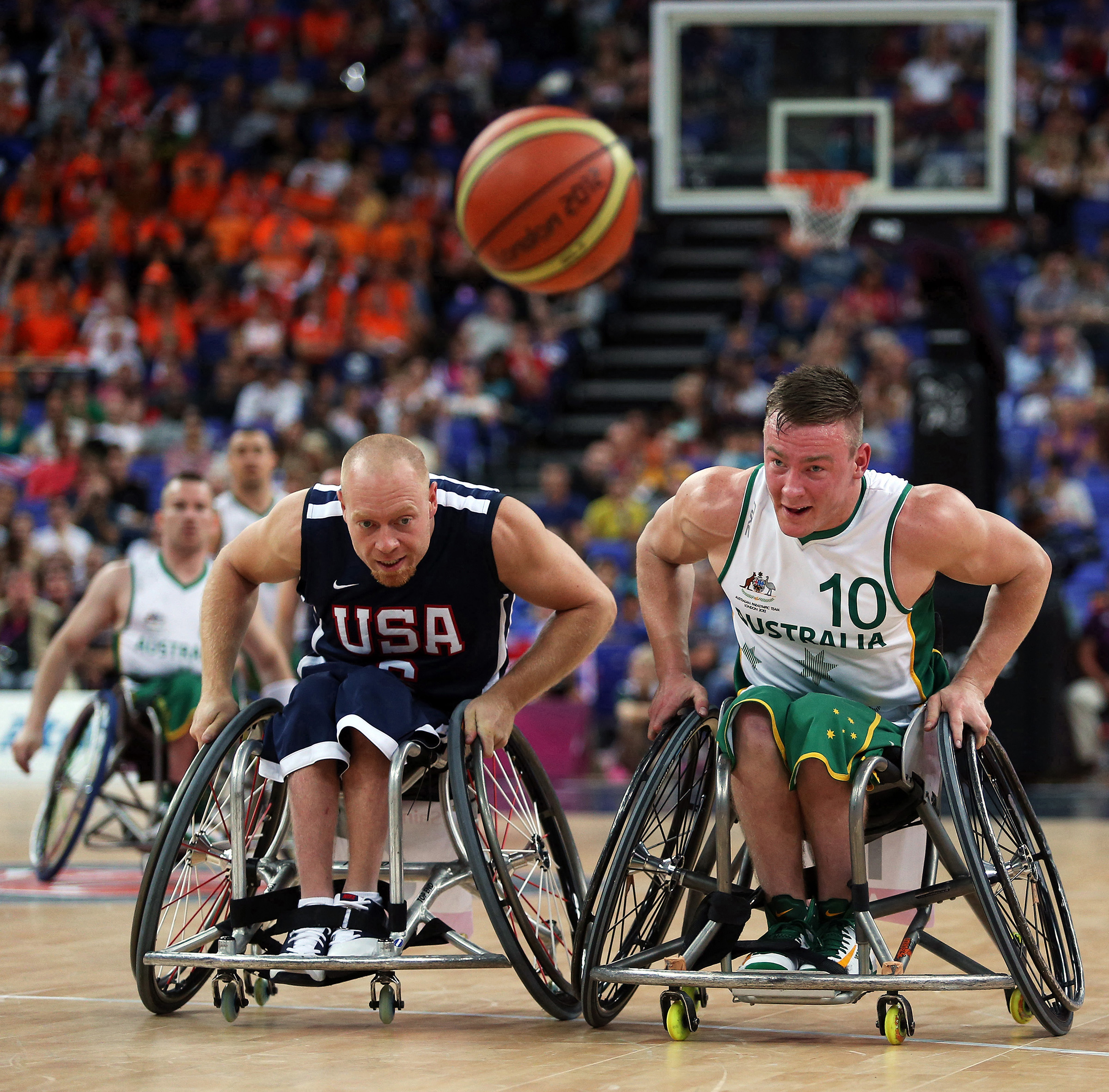 Photograph of Australian Paralympic team member Jannik Blair at the 2012 Summer Paralympic Games in London